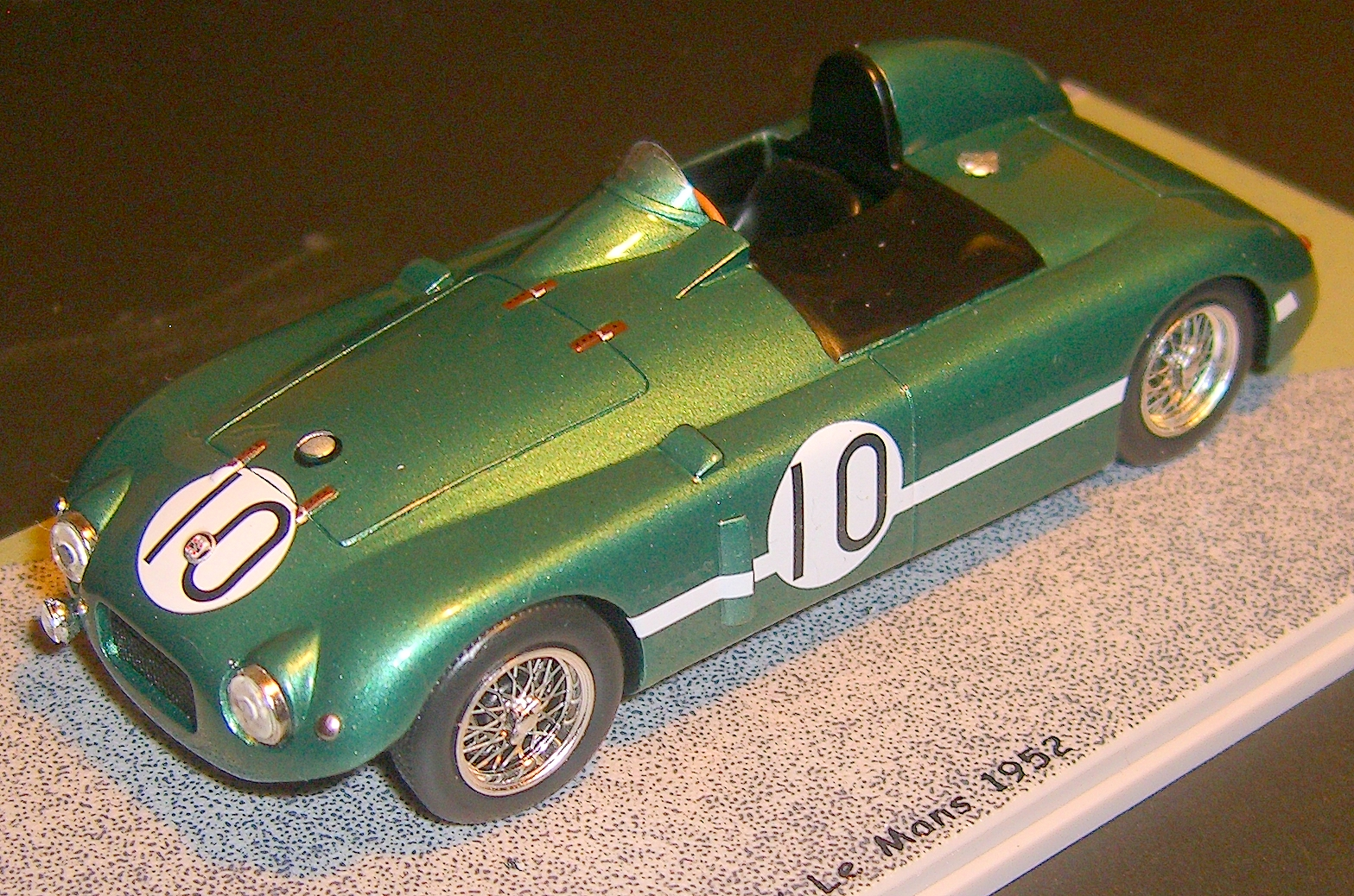 Scale model by Bizarre 1/43 (Art. BZR090) of the lightweight Nash-Healey purpose-built for the 1952 Le Mans 24-hour race. Driven by Leslie Johnson and Tommy Wisdom, it finished third.